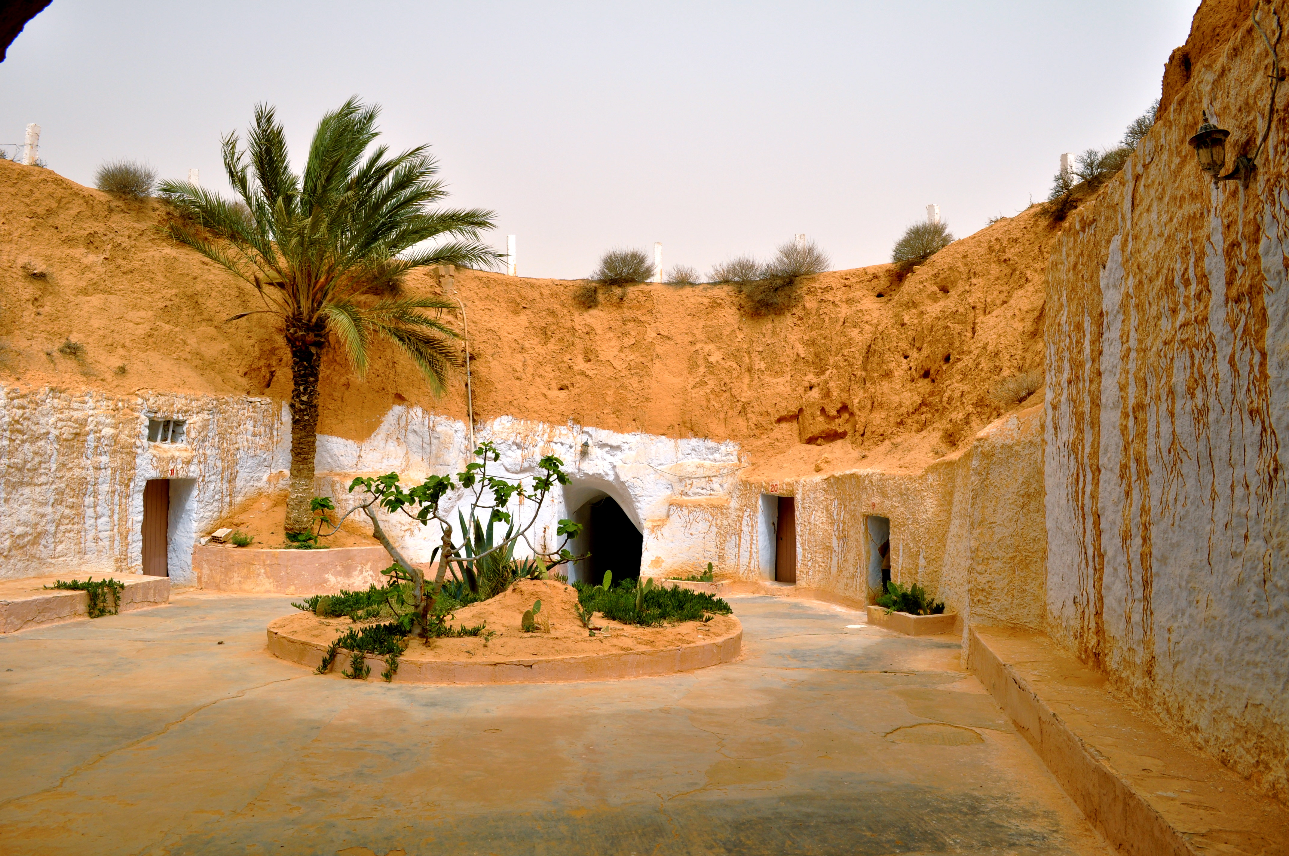 ancient berber architecture